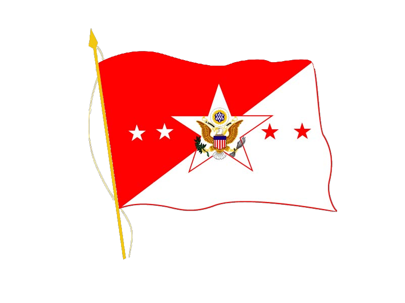 Personal flag for the Chief of Staff of the United States Army